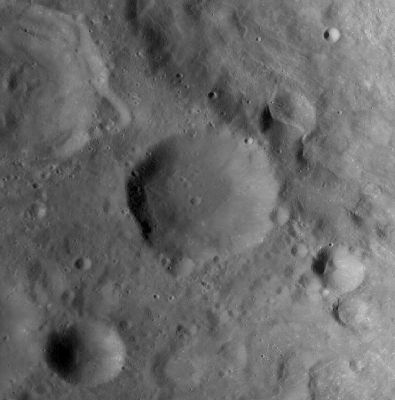 LROC WAC image (No. M119089211ME).